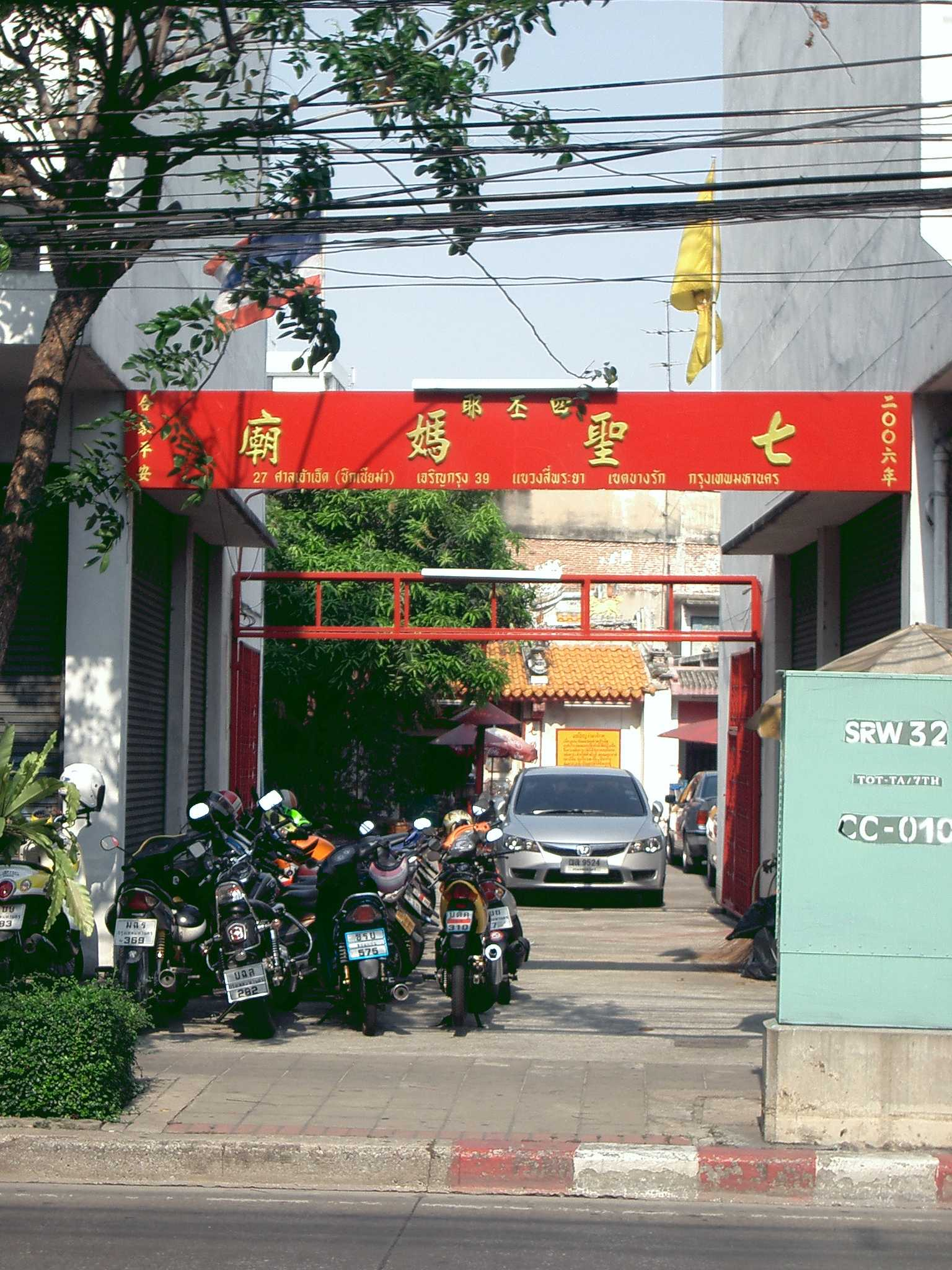 Main Gate, Wat San Chao Chet, 27 Soi San Chao Chet, Soi 39 Charoen Krung Road, Bangkok 10500 中文（香港）: 曼谷大京都，挽叻縣，石龍軍39街，七聖媽廟社，主祀媽祖的四丕耶七聖媽廟，大門。